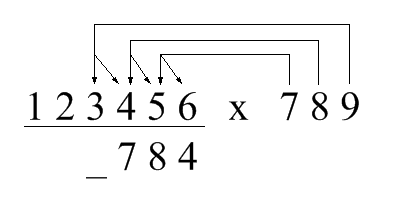 Steps for general multiplication using the Trachtenberg Speed System